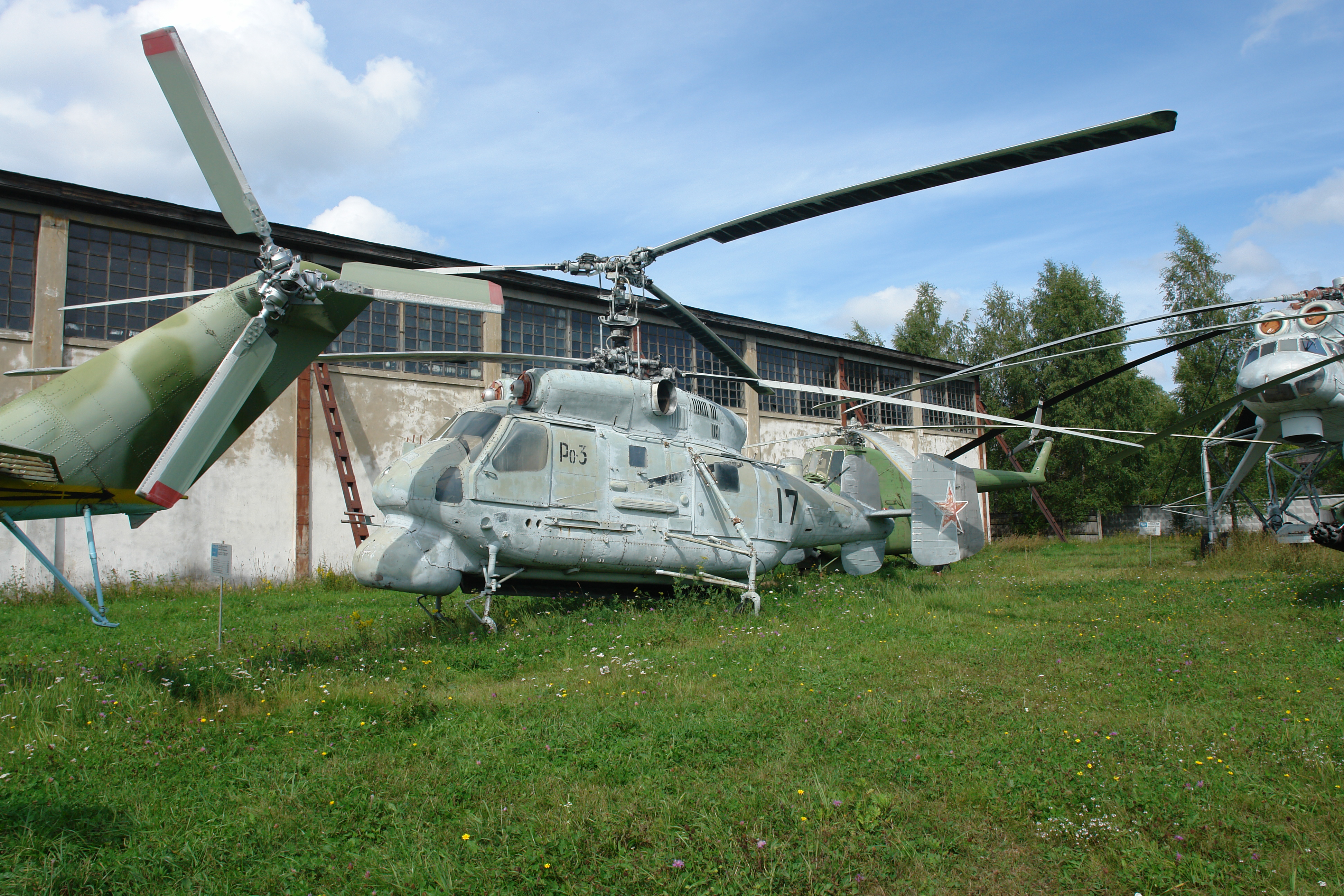 Kamov Ka-25 (Hormon) at Monino Central Air Force Museum (Moscow).